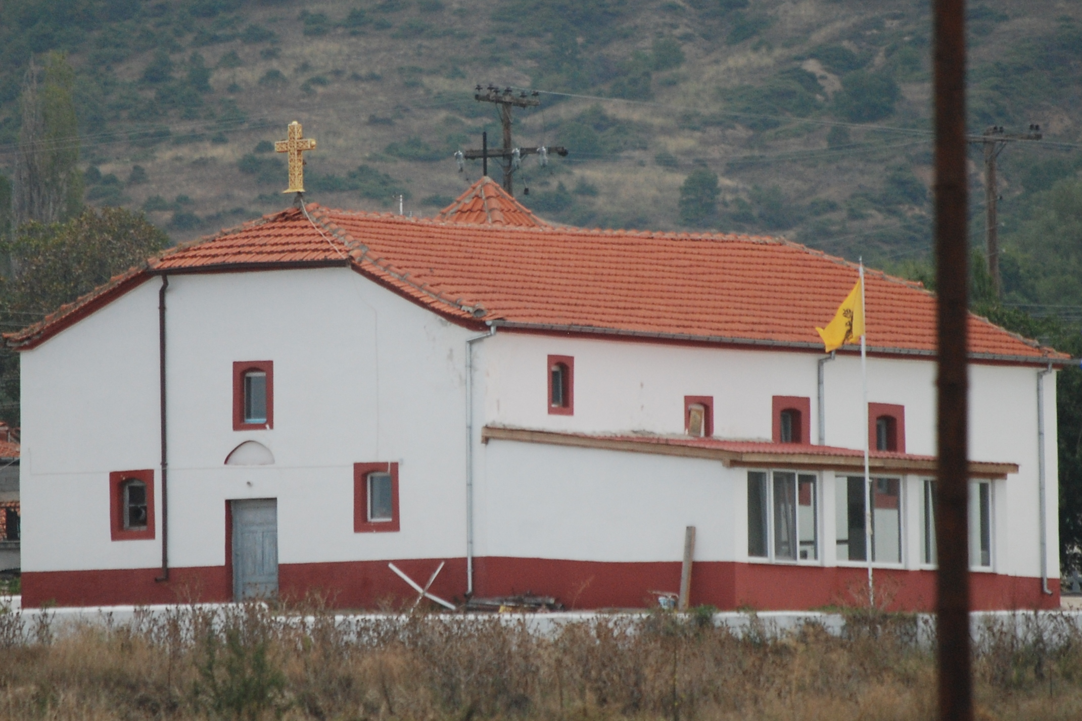 Church in Plati/Shtrkovo, Greece